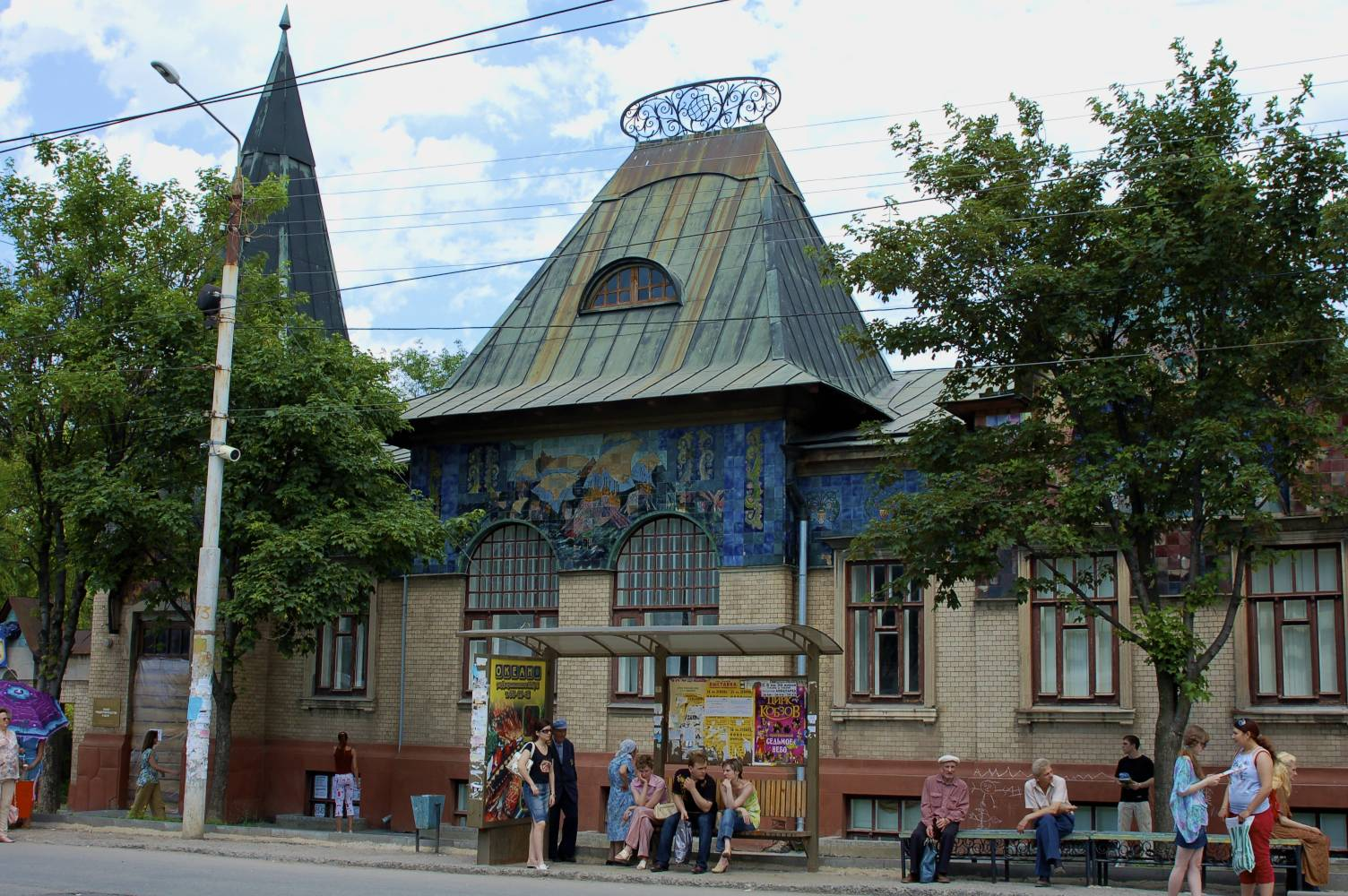 Taganrog City Development Museum (Mansion of Sharonov)